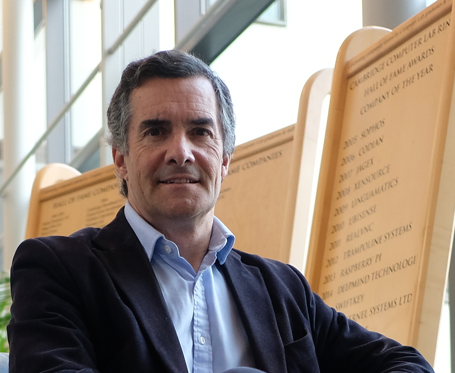 Portrait photograph of Ian Lewis (Computer Scientist) taken at the Gates Building, Computer Laboratory, University of Cambridge